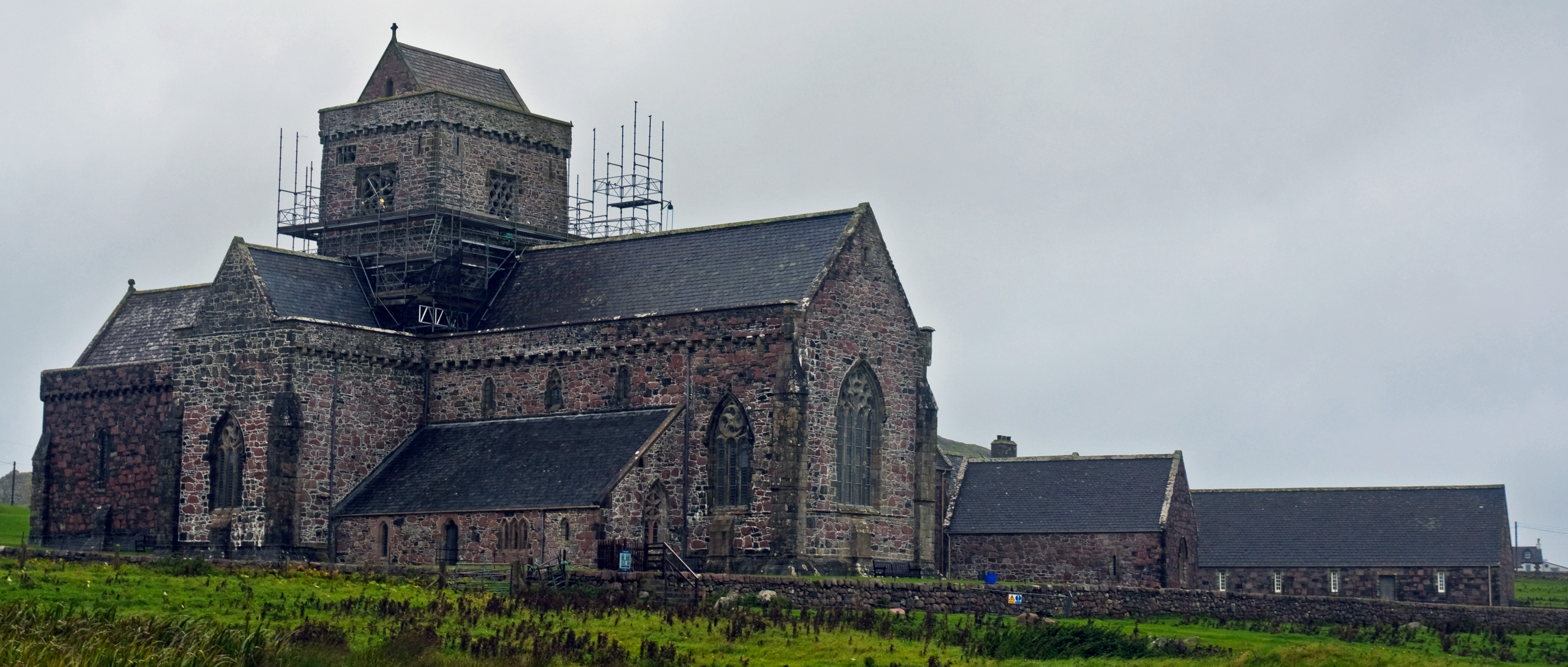 Iona Abbey. This picture is a cropped version of File:Iona Abbey, Scotland, Sept. 2010 - Flickr - PhillipC (1).jpg